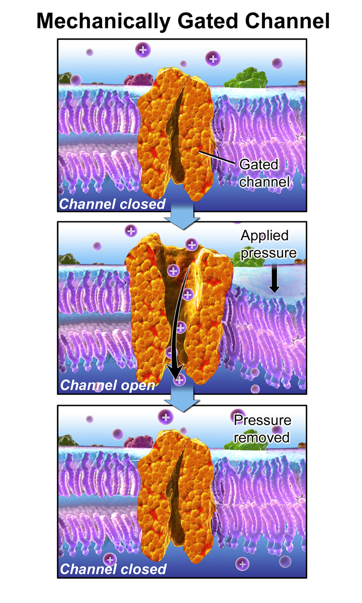 Mechanically Gated Channel. This image was donated by Blausen Medical. Please visit our website to see more medical illustrations and animations.